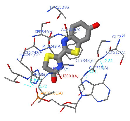 Crystal structure of the thermostable japanese firefly luciferase (PDB id: 2d1r) complexed with oxyluciferin and AMP. Oxyluciferin in protein microenvironment. Created with Jmol from PDB id: 2d1r // PDBsum